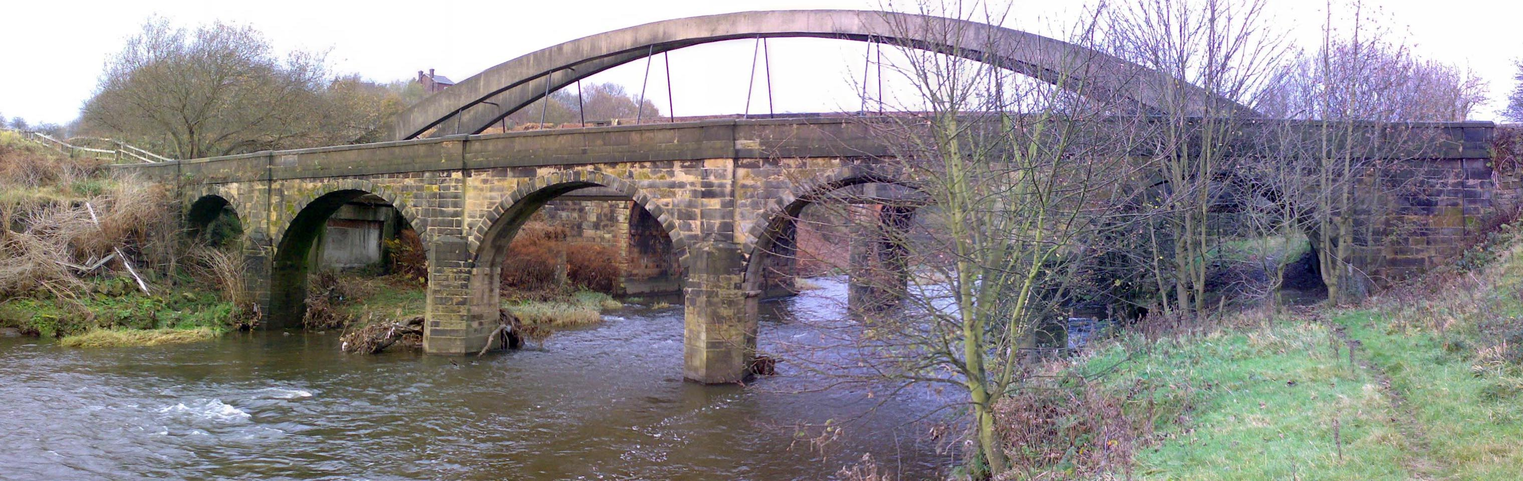 Three bridges over the River Irwell at Prestolee, near Stoneclough, Greater Manchester. Nearest the camera is Prestolee Bridge, an 18th-century packhorse bridge and the oldest of the three. Behind it is a bow bridge carrying a sewer pipe. Behind that is the Prestolee Aqueduct of the Manchester, Bolton and Bury Canal, which was built in the 1790s. The view is northeast.